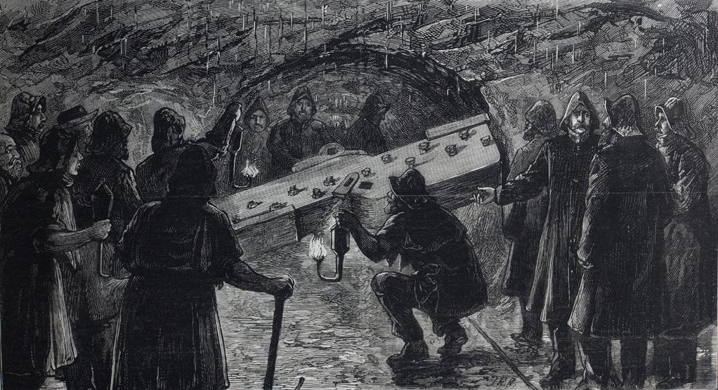 This illustration shows the occasion when workers from the two tunnel headings met underneath the River Mersey. A number of journalists visited the tunnel works whilst it was being built.